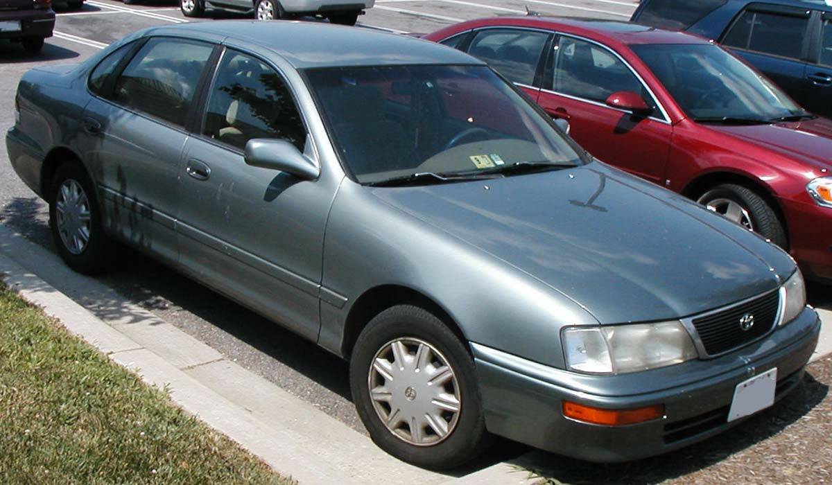 1995-1999 Toyota Avalon photographed in USA.